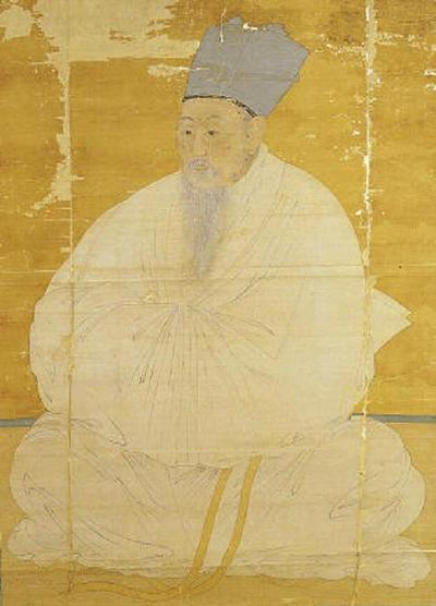 Korea-Portrait of Chang Hyungwang-Joseon